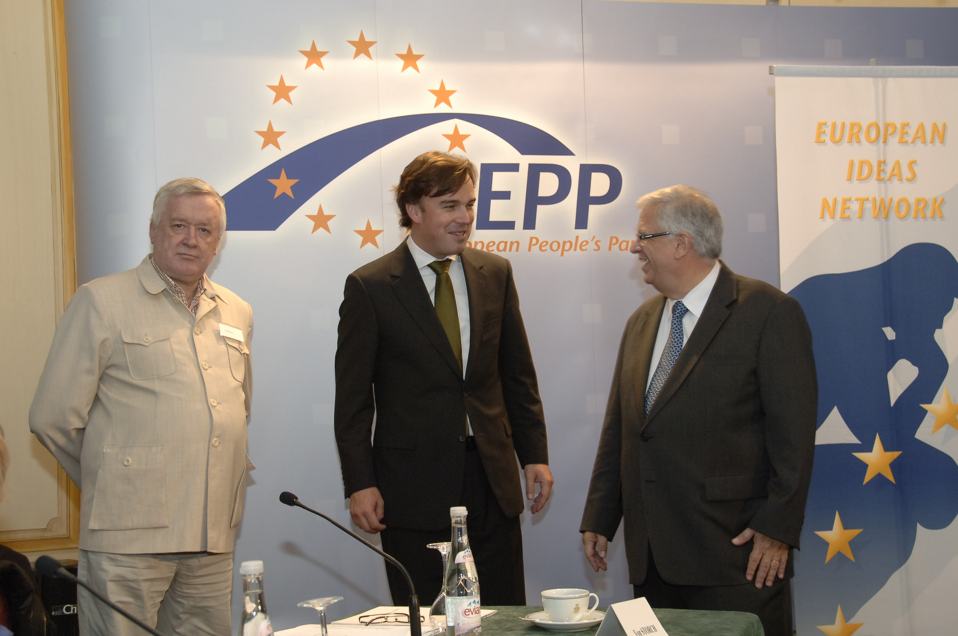 EPP CONVENTION ON CLIMATE CHANGE IN MADRID (6-7 FEBRUARY 2008)